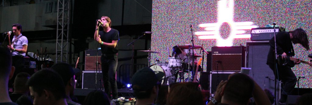 Bad Suns